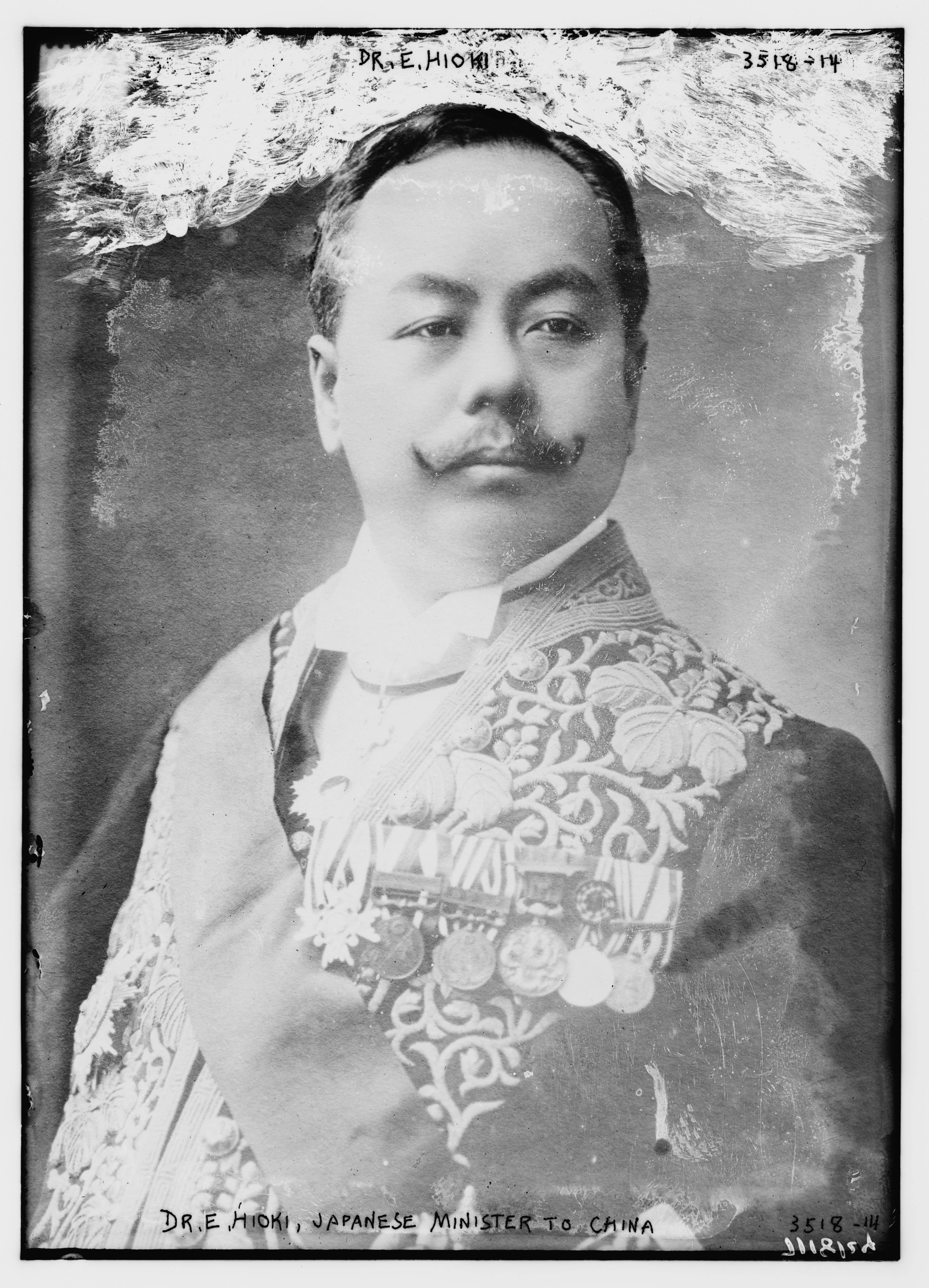 Title: Dr. E. Hioki, Japanese Minister to China Abstract/medium: 1 negative : glass ; 5 x 7 in. or smaller.